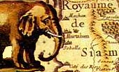 Theme logo for Thailand